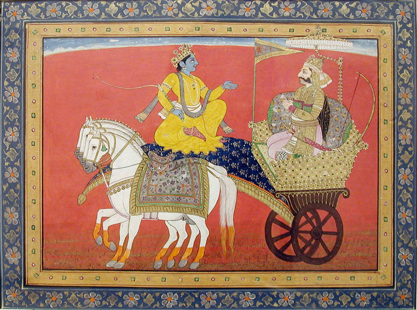 Series Title: Bhagavad Gita Suite Name: Bhagavad Gita Creation Date: ca. 1820 Display Dimensions: 5 5/16 in. x 7 5/16 in. (13.5 cm x 18.6 cm) Credit Line: Edwin Binney 3rd Collection Accession Number: 1990.1251 Collection: The San Diego Museum of Art